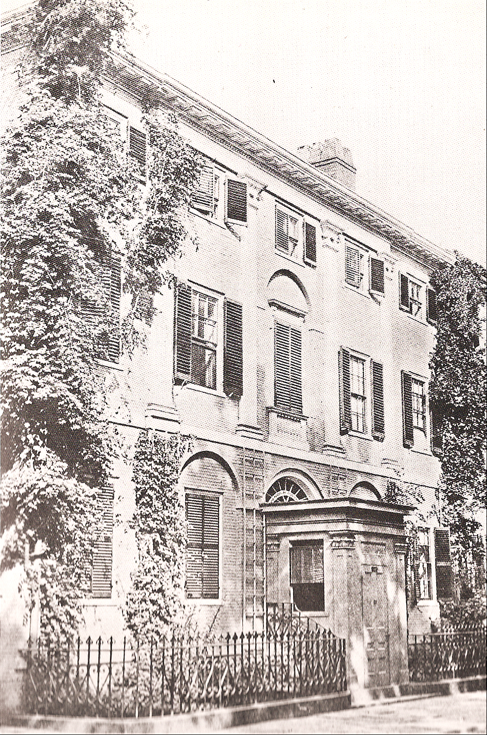 Franklin Place, Boston, 1794-95.